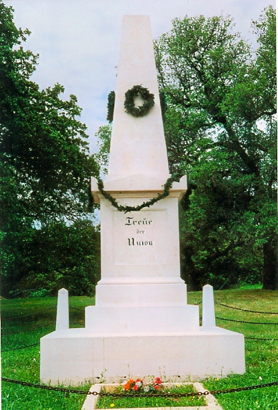 Treǔe der Union ("Loyalty to the Union") monument to the German Texans slain at the Nueces massacre, Comfort, Texas, USA